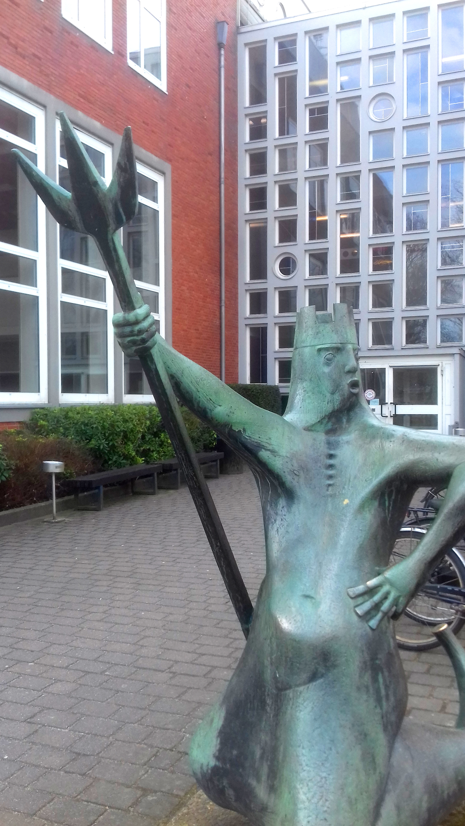 Entrance to the City University of Applied Sciences in Bremen with a statue of Neptune.